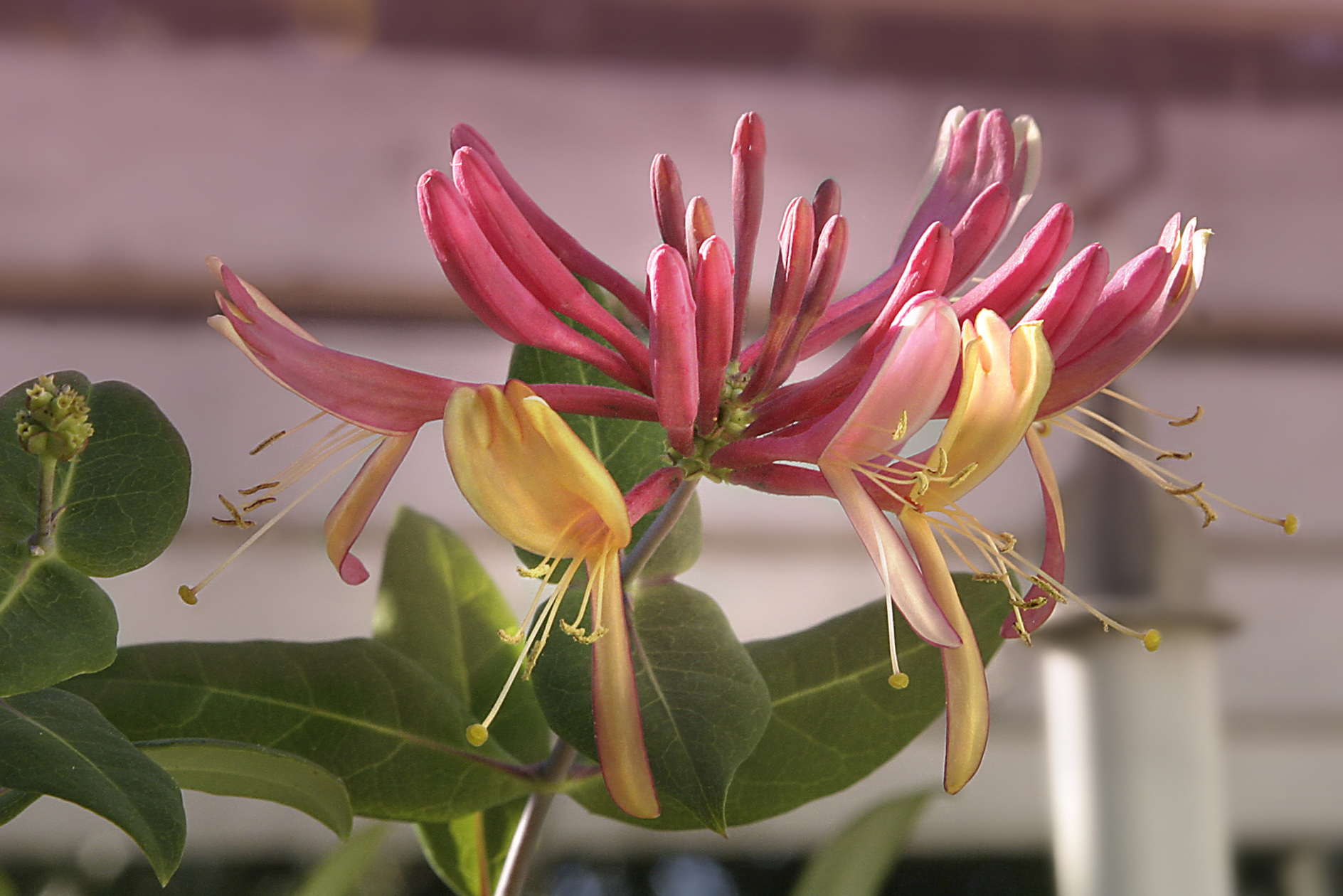 Cultivated Honeysuckle vine growing in central Illinois USA